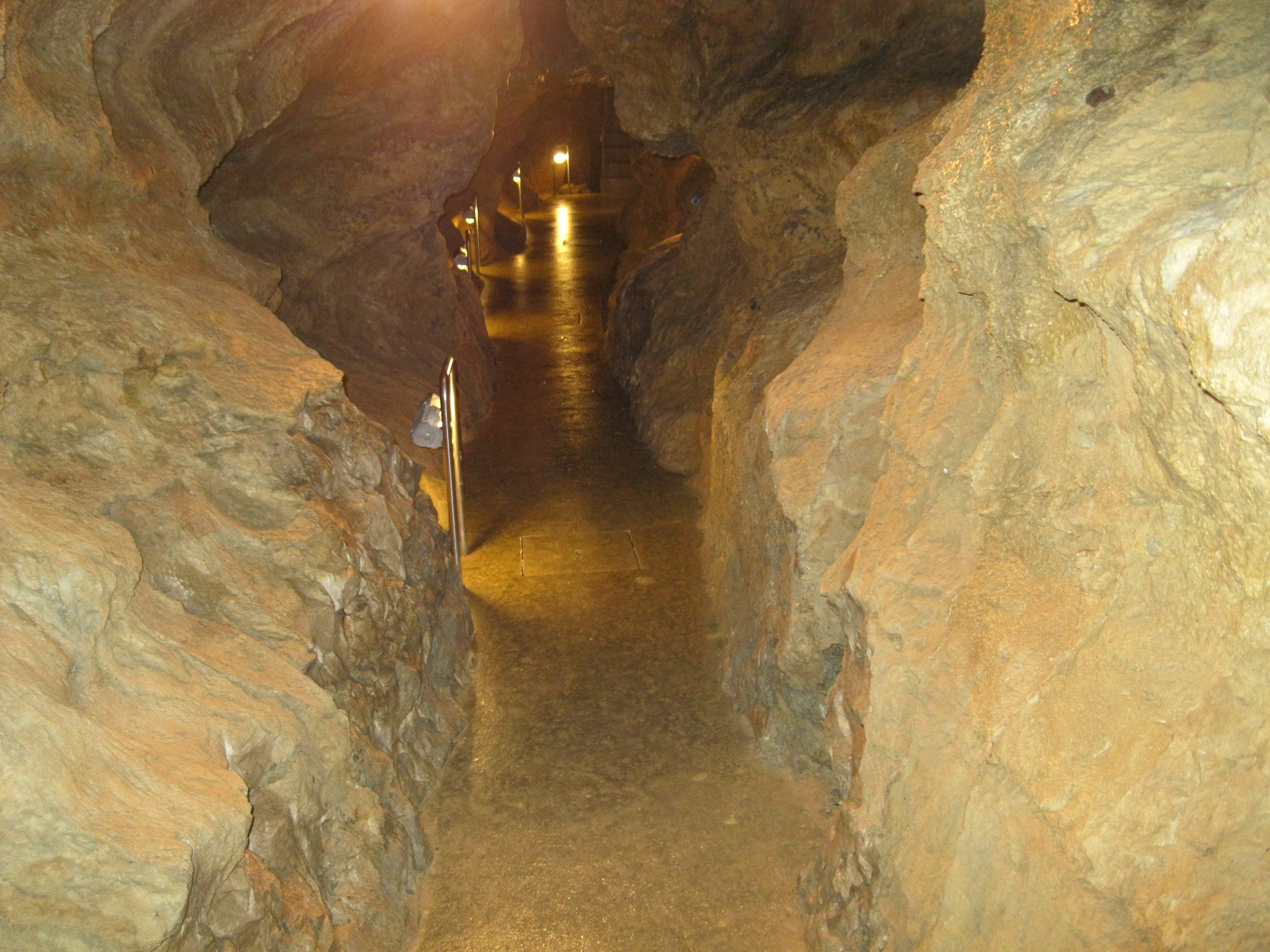 Developed corridor in the Pál-völgy Cave